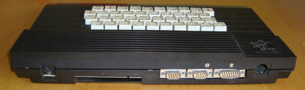 The back side of a Felix HC85+ computer